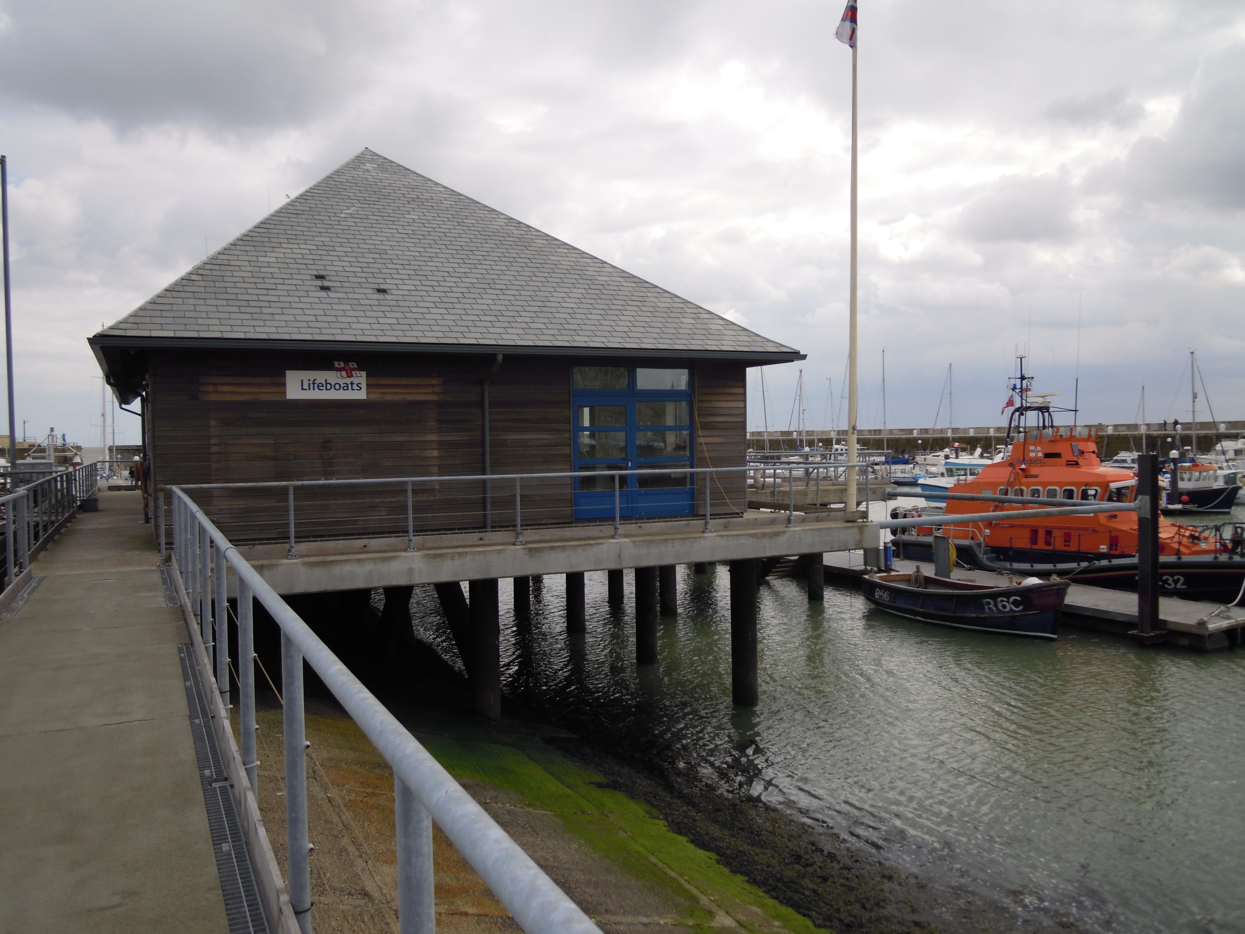 Ramsgate Lifeboat station and Pontoon, Western Crosswall, Ramsgate Royal Harbour, Ramsgate, Kent, UK